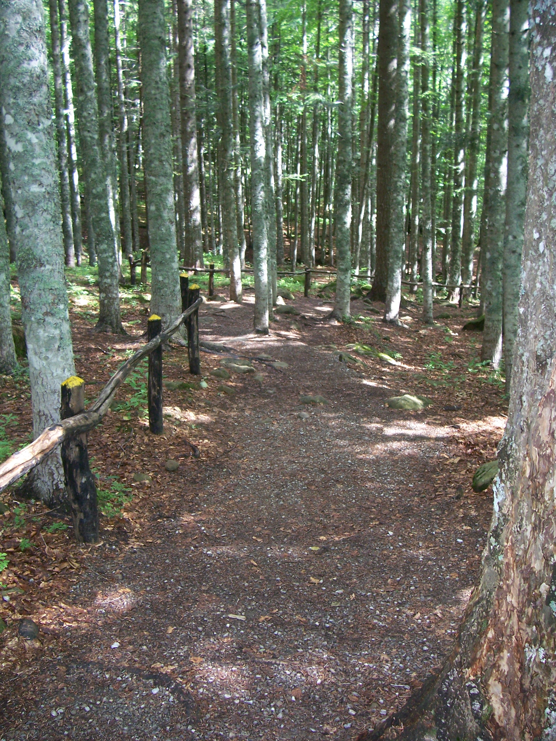 Mushroom's path on "Orto Botanico Forestale dell'Abetone" - Pistoia - Italy